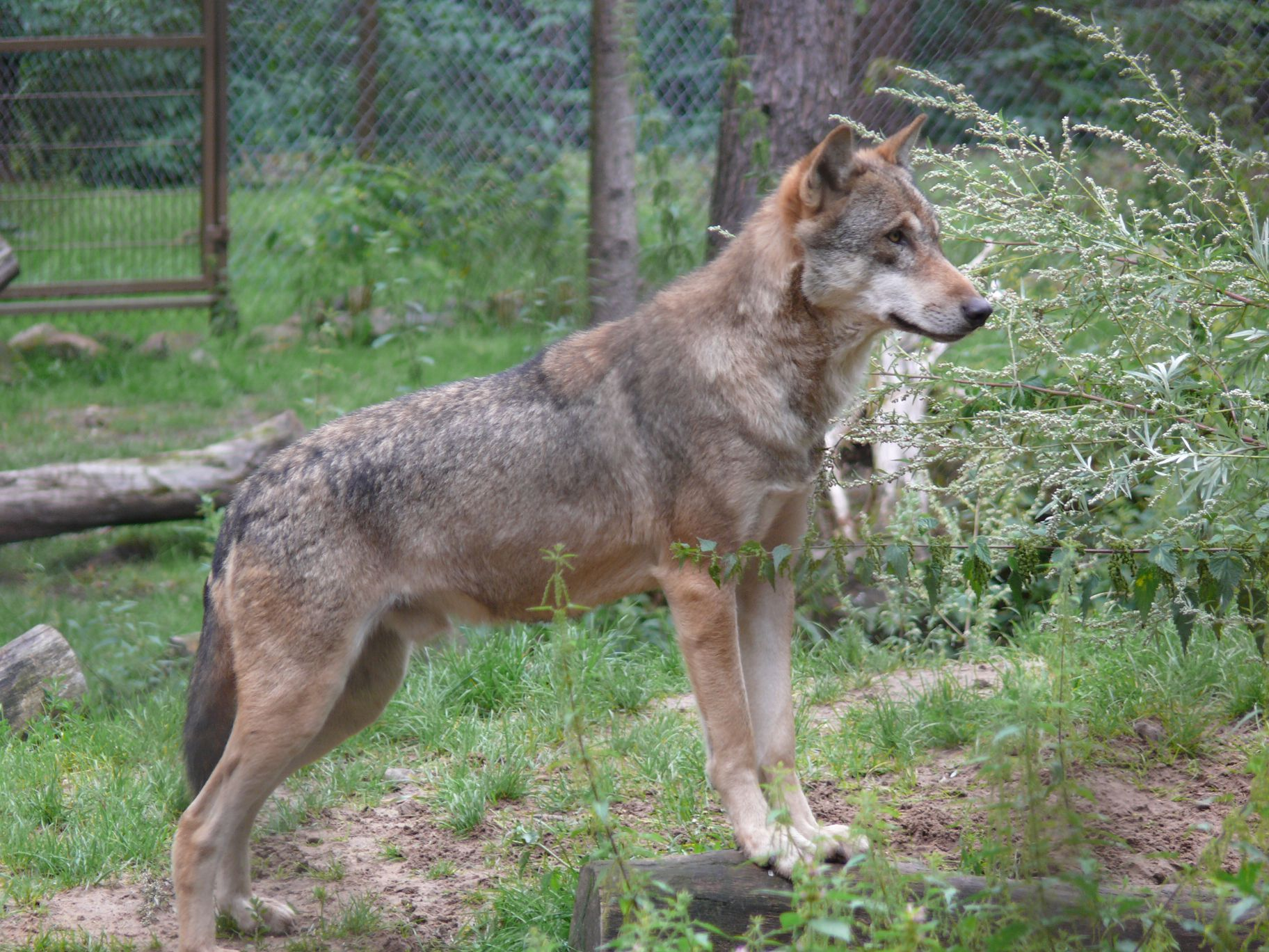 European wolf (Canis lupus lupus).